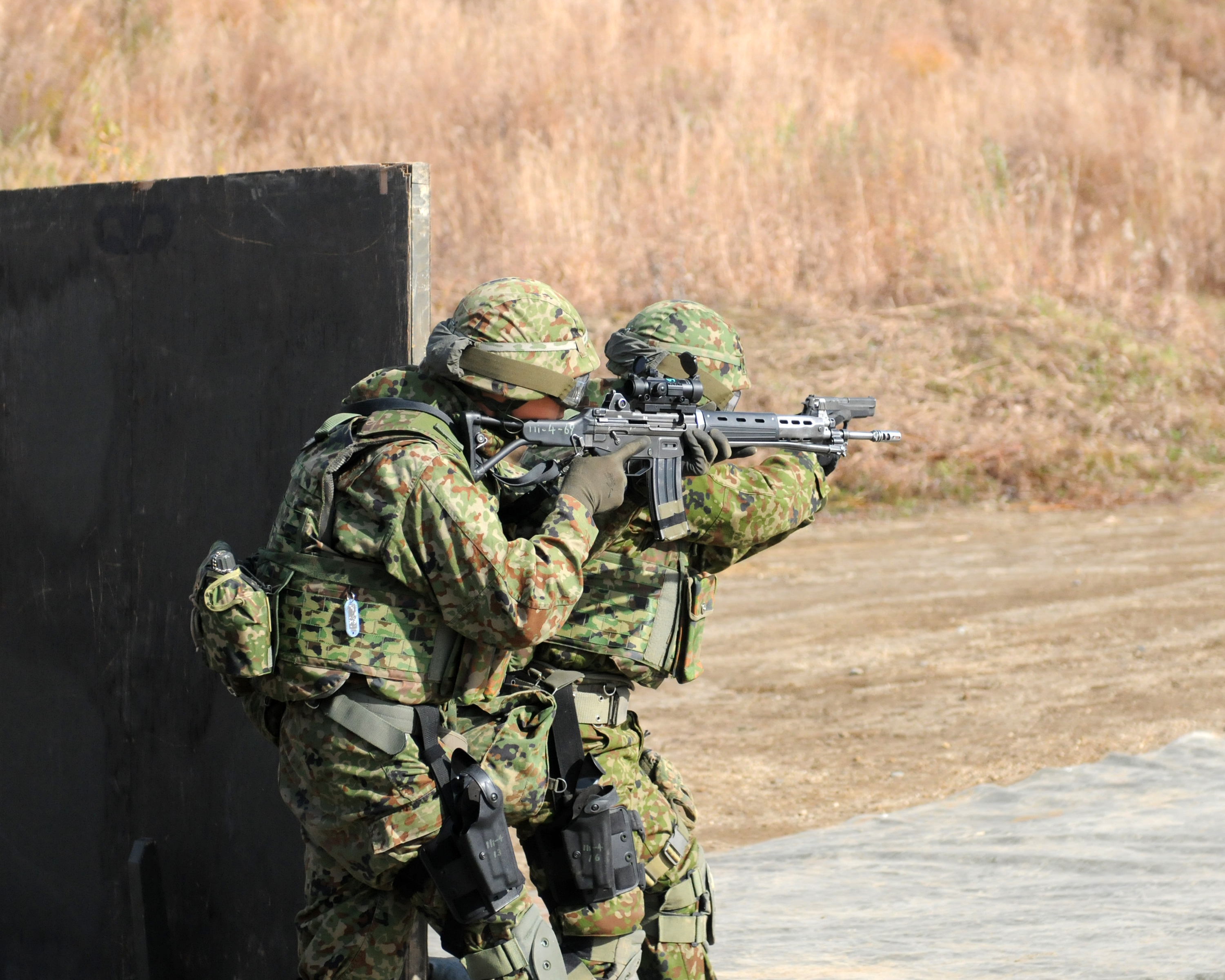 Members of the Japan Ground Self-Defense Force fire at moving targets with a 5.56mm rifle and 9mm pistol during close quarter marksmanship training, here Oct. 24. Close quarters marksmanship pairs soldiers together to train in a live fire exercise in a confined space. CQM is a key fighting skill, though it may seem easier as the distance is shorter there are a number of other factors that must be considered for success in this type of engagement. Members of the JGSDF put on a demonstration for their U.S. Army counterparts to showcase their weapon and movement skills during Orient Shield 14. Orient Shield 14 brings together the 2nd SBCT, 2nd Inf. Div. from JBLM and JGSDF members from the 11th Infantry Regiment, 7th Armor Division, Northern Army for combined light infantry, squad-level and urban assault training